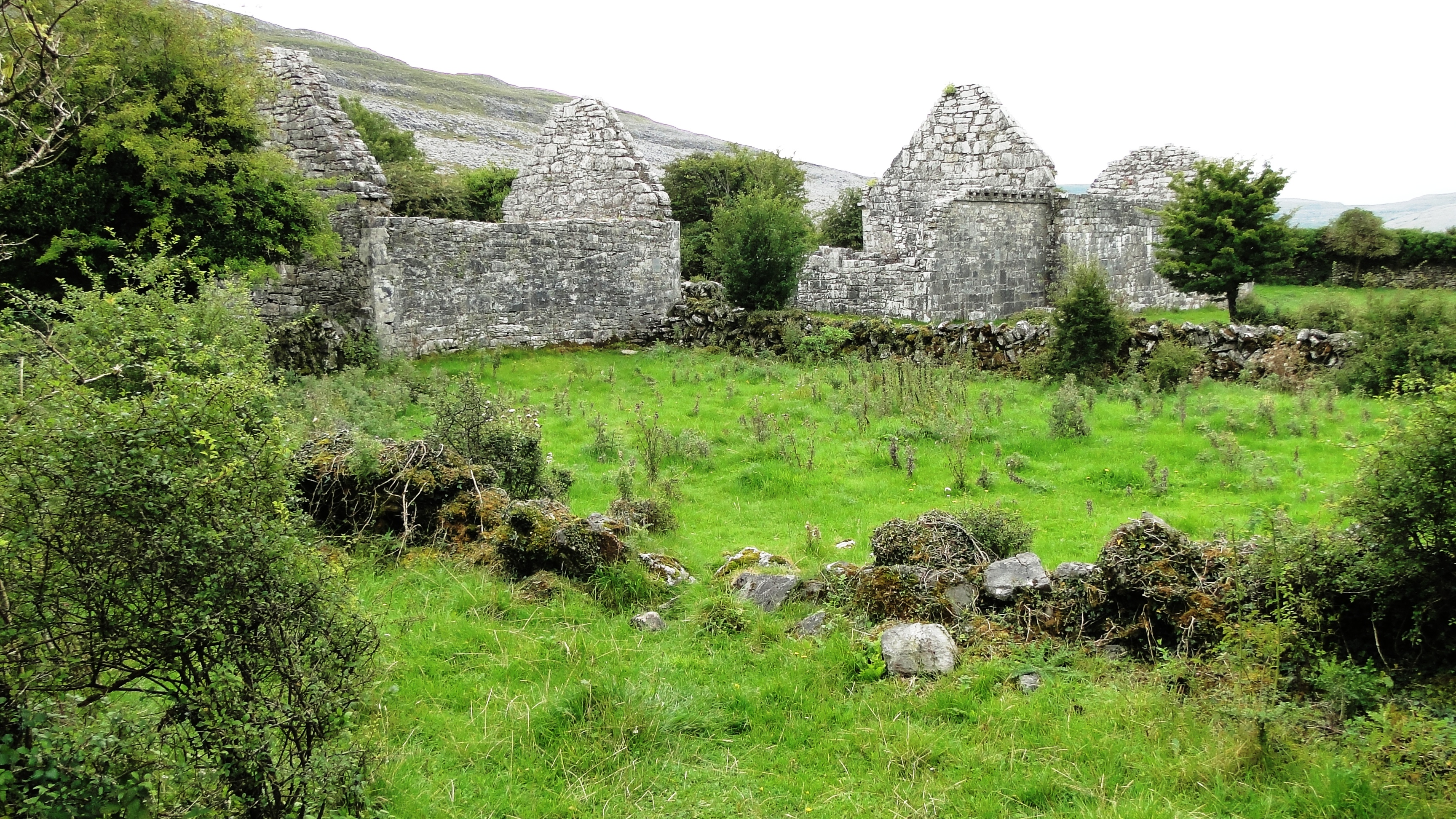 The two larger early medieval Oughtmama churches, County Clare, Ireland